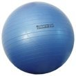 Typical Birthing Ball.